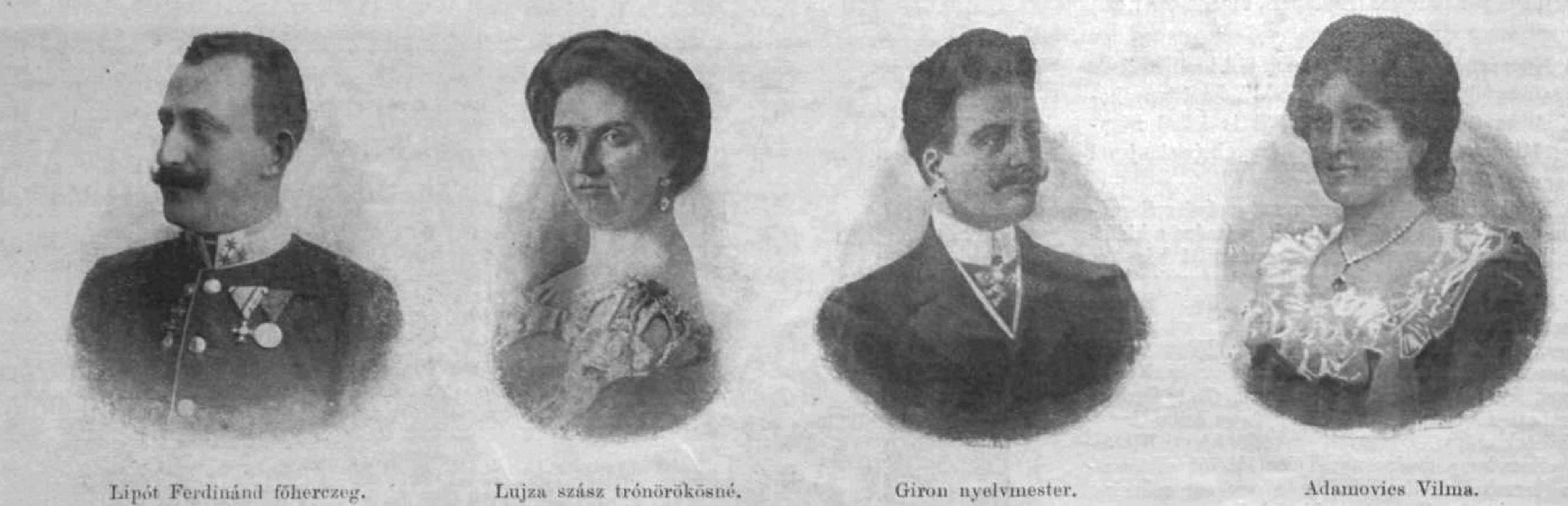 The members of ethics scandal: Archduchess Luise of Austria, Archduke Leopold Ferdinand of Austria, André Giron, Wilhelmine Adamovic